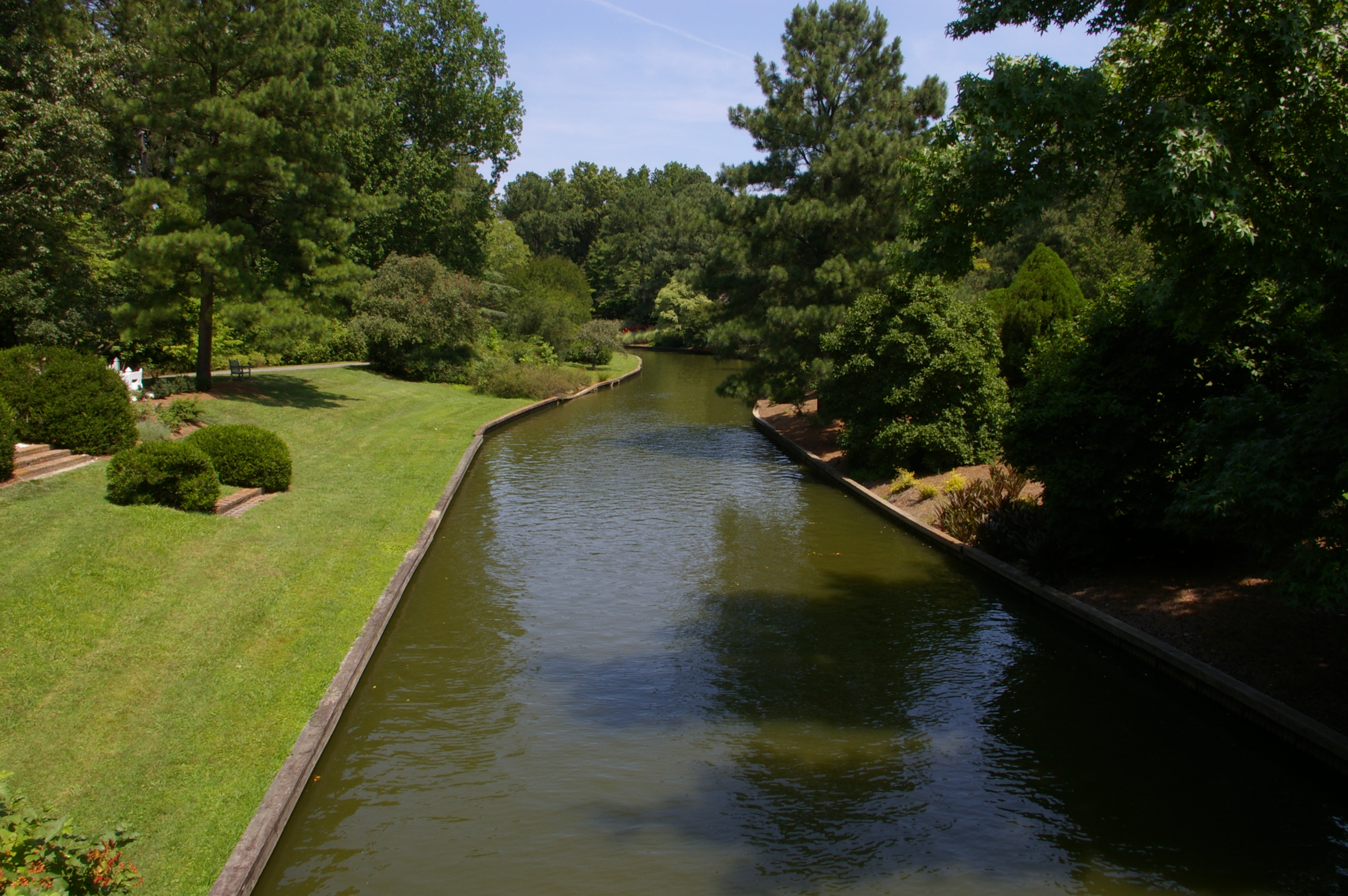 Canal at the Norfolk Botanical Garden, in Norfolk, Virginia. June 2007.